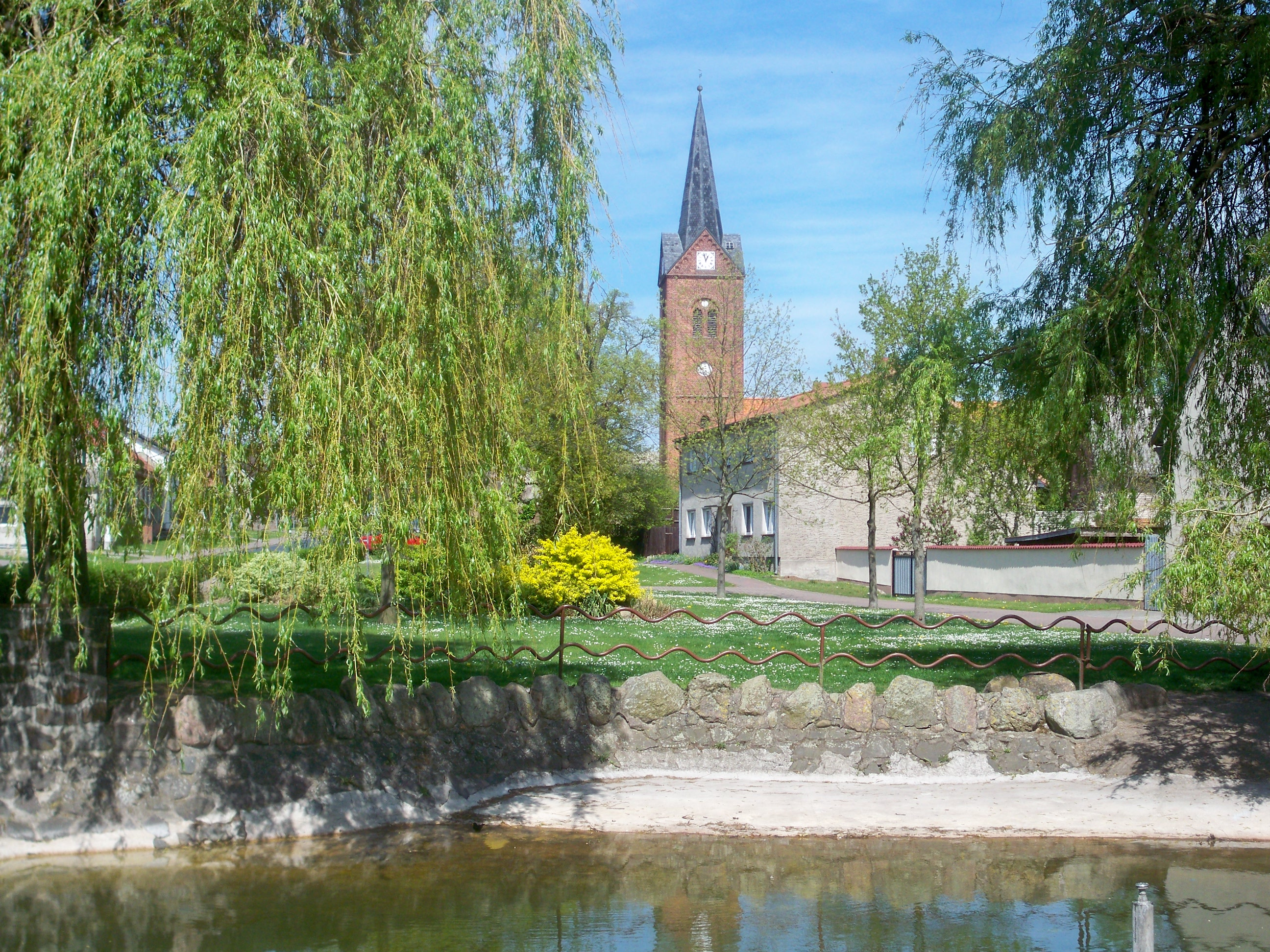 Jübar, Saxony-Anhalt, village pond and tower of Lutheran church